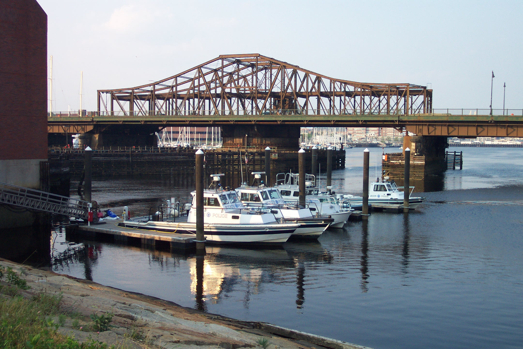 Part of the Massachusetts State Police Marine Section's fleet, moored at its base on the Charles River in Boston. For more information see the Wikipedia article Massachusetts State Police.